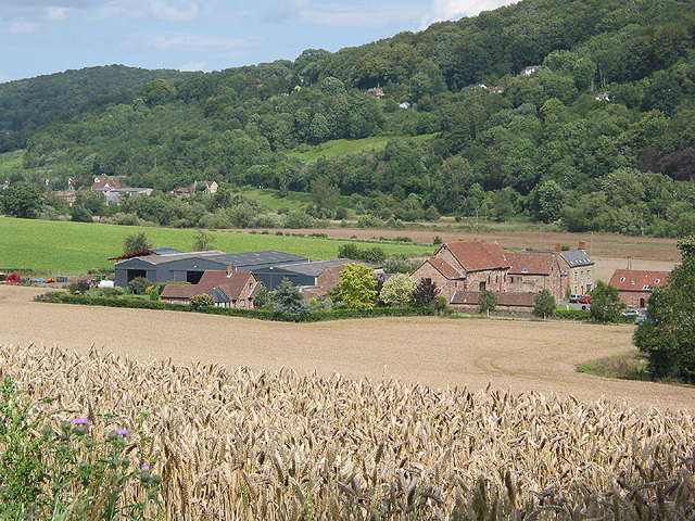 Flanesford Priory, nr Goodrich The priory buildings were adapted in the 17th Century into farm buildings and remained as such until they were converted into holiday apartments in 1980. Flanesford Priory is mentioned in the Domesday Book and once housed an order of Augustinian monks.